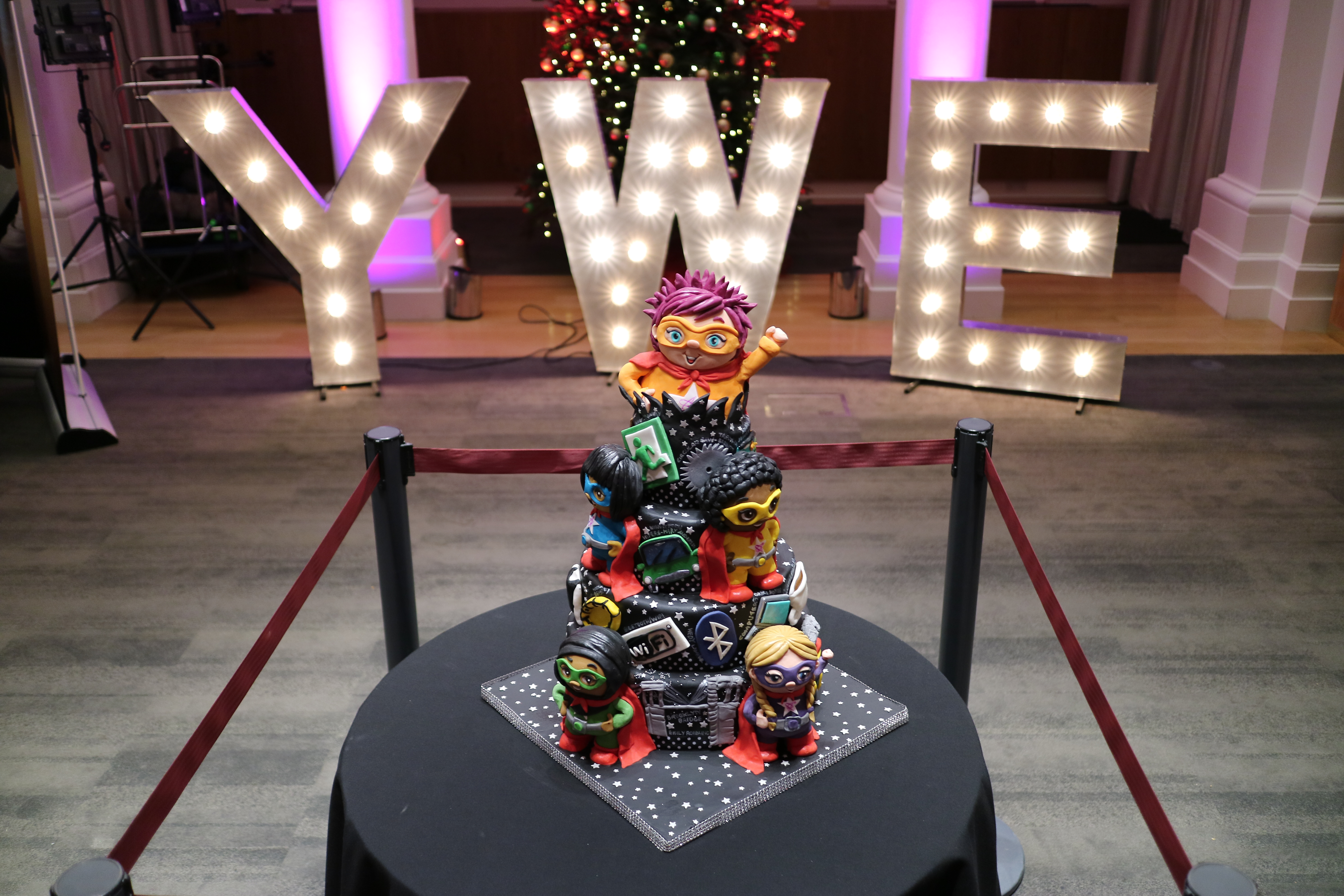 "Extreme Cake Makers" cake made for the IETs YWE awards, 2018. The award ceremony was held at Savoy Place, London. The illuminated letters "YWE" are also visible.